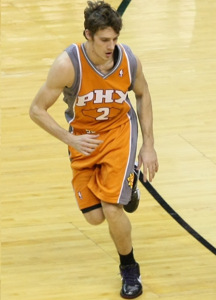 Goran Dragić and Randy Foye, Washington Wizards vs Phoenix Suns November 8, 2009 at Verizon Center in Washington, D.C.